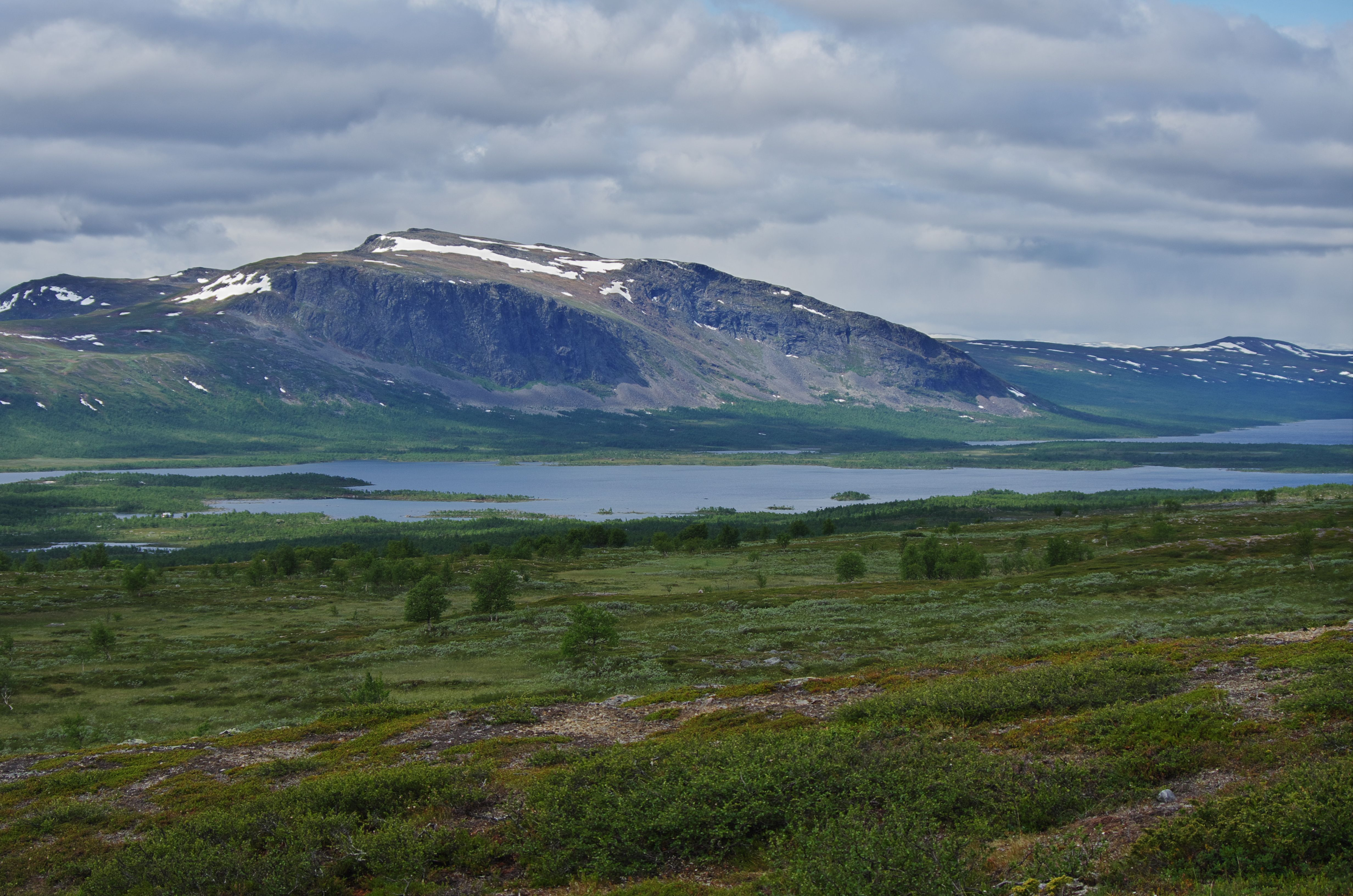 The lake Bartaure or Bartávrre in Arjeplog Municipality, Lappland, Sweden. Photographed from the fell Jåhkågaskatjårro.